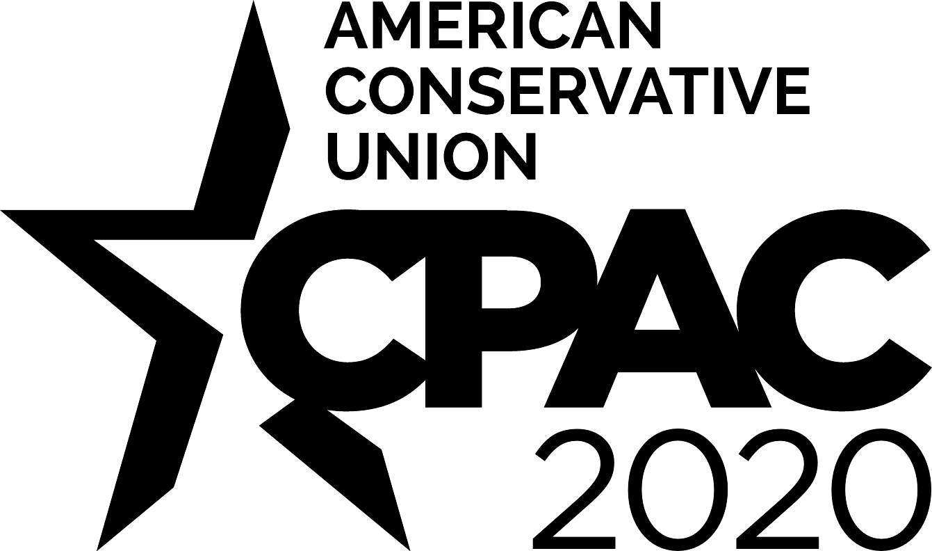 The logo for Conservative Political Action Conference 2020.